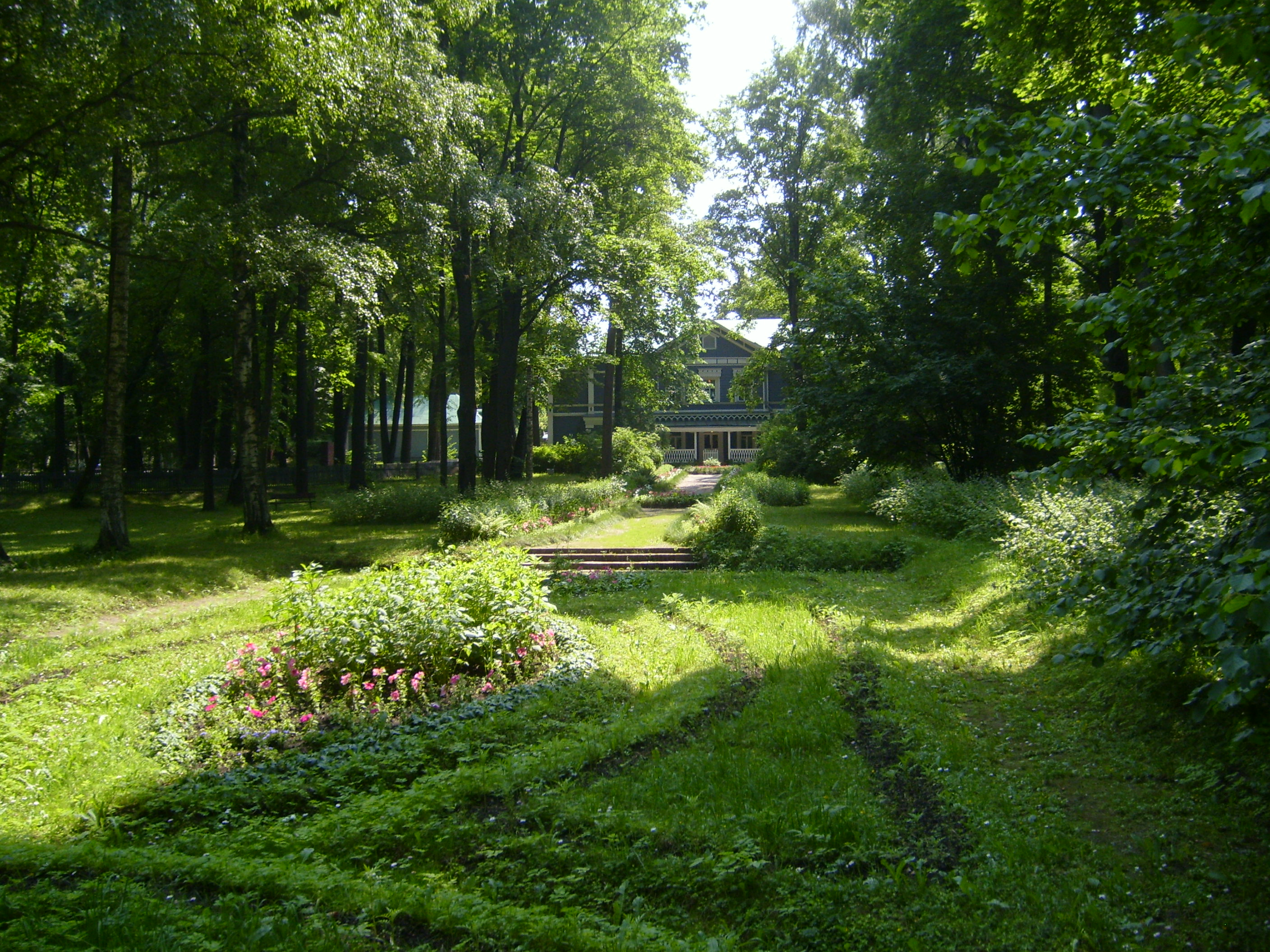 The garden of Tchaikovsky at his House-Museum in Klin